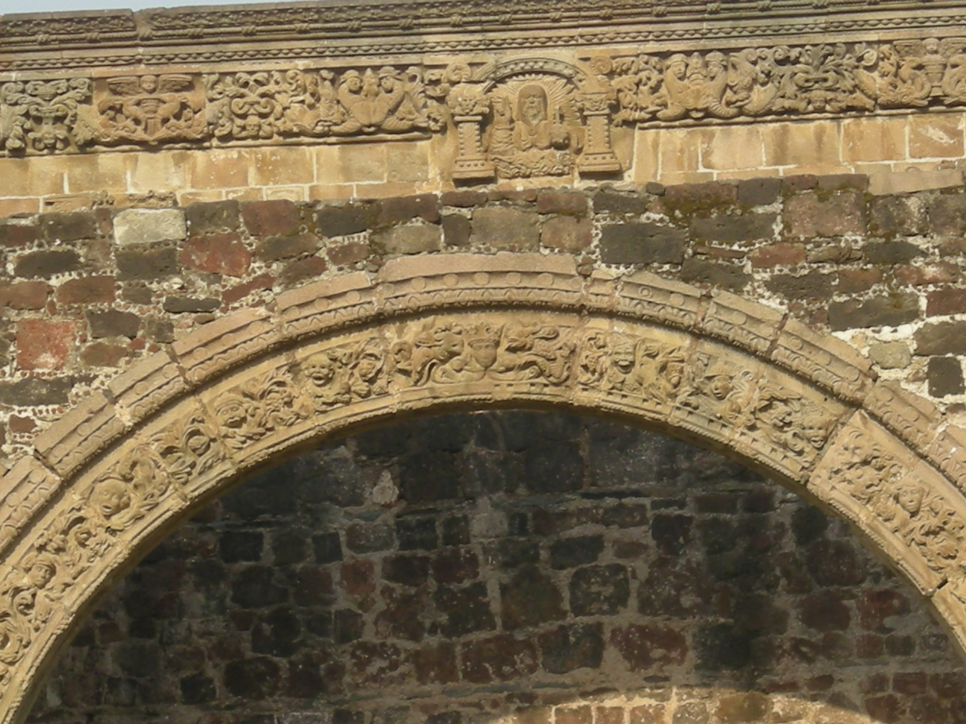 Upper arch with relief work from the "Capilla Abierta" or Open Chapel of San Luis Obispo Parish in Tlalmanalco, Mexico State, Mexico